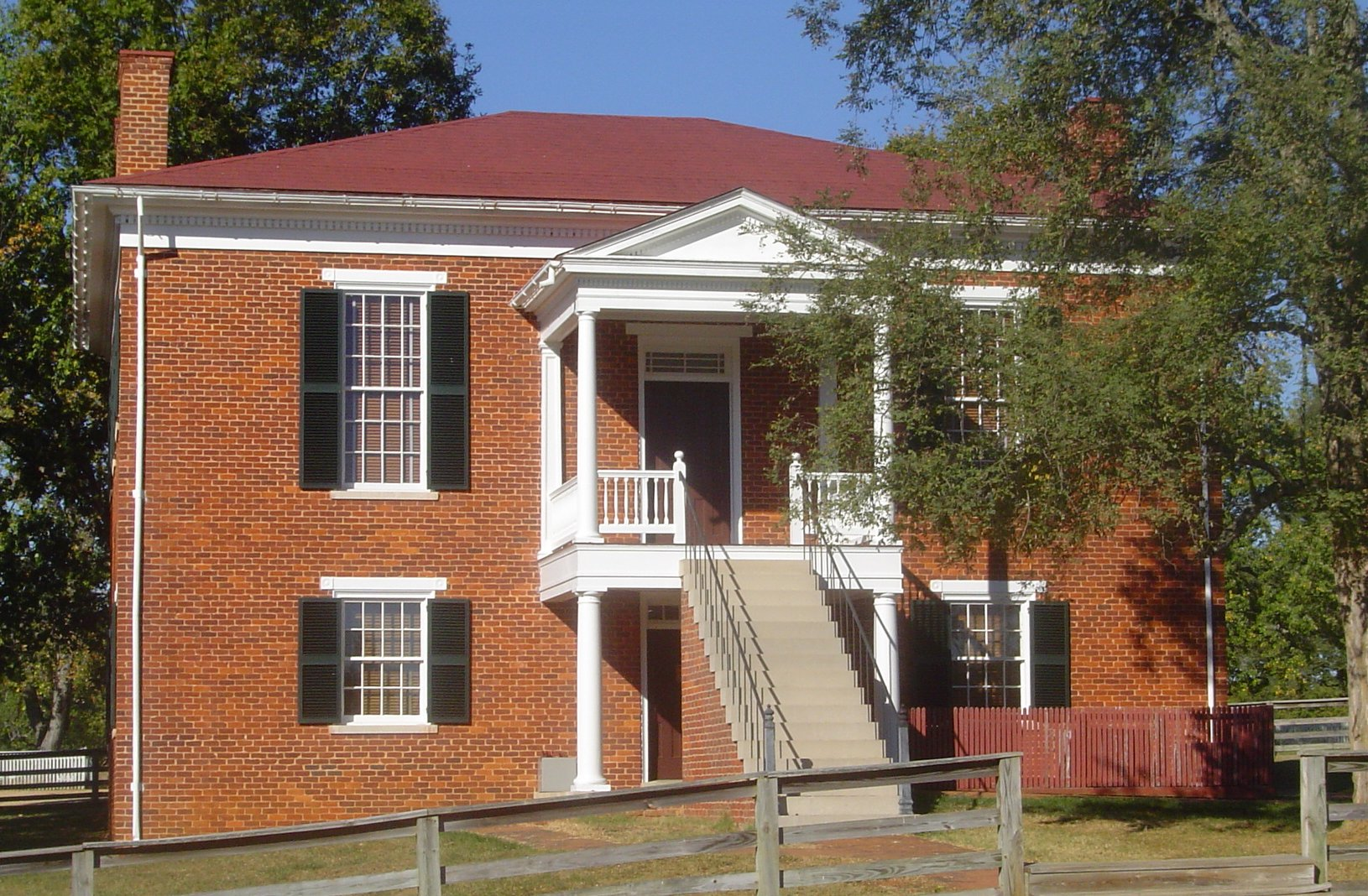 Old Appomattox Court House reconstructed, Virginia